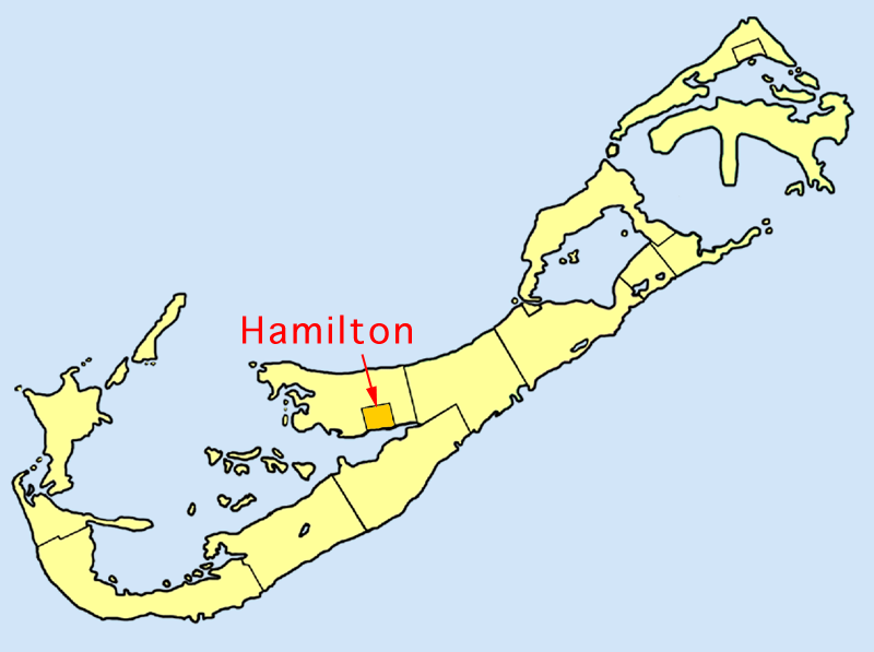 Location map of city of Hamilton, Bermuda